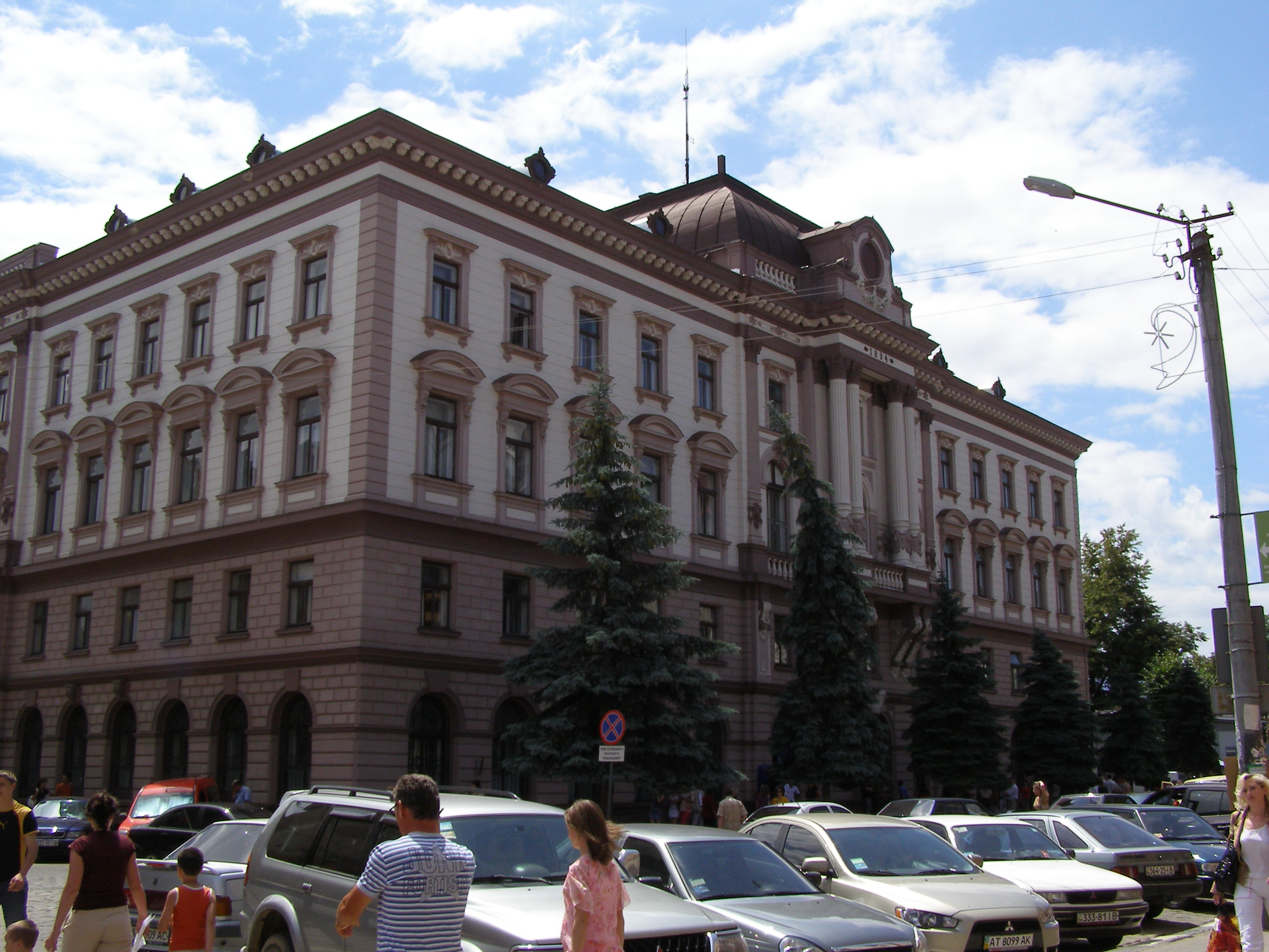 Historic building in Ivano-Frankivsk, western Ukraine.